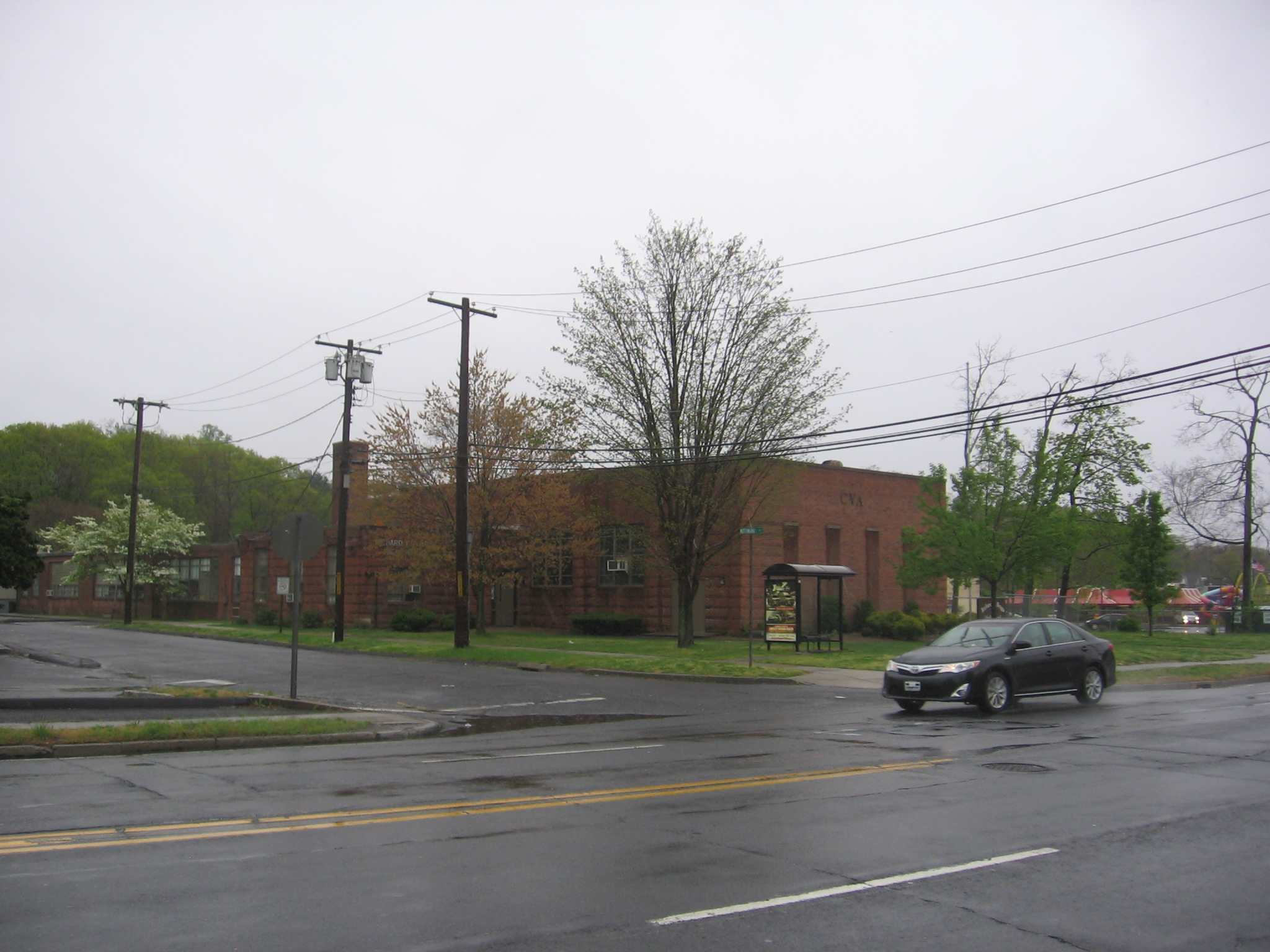 Briggs High School on Main Avenue in the Winnipauk neighborhood of Norwalk, Connecticut, USA.